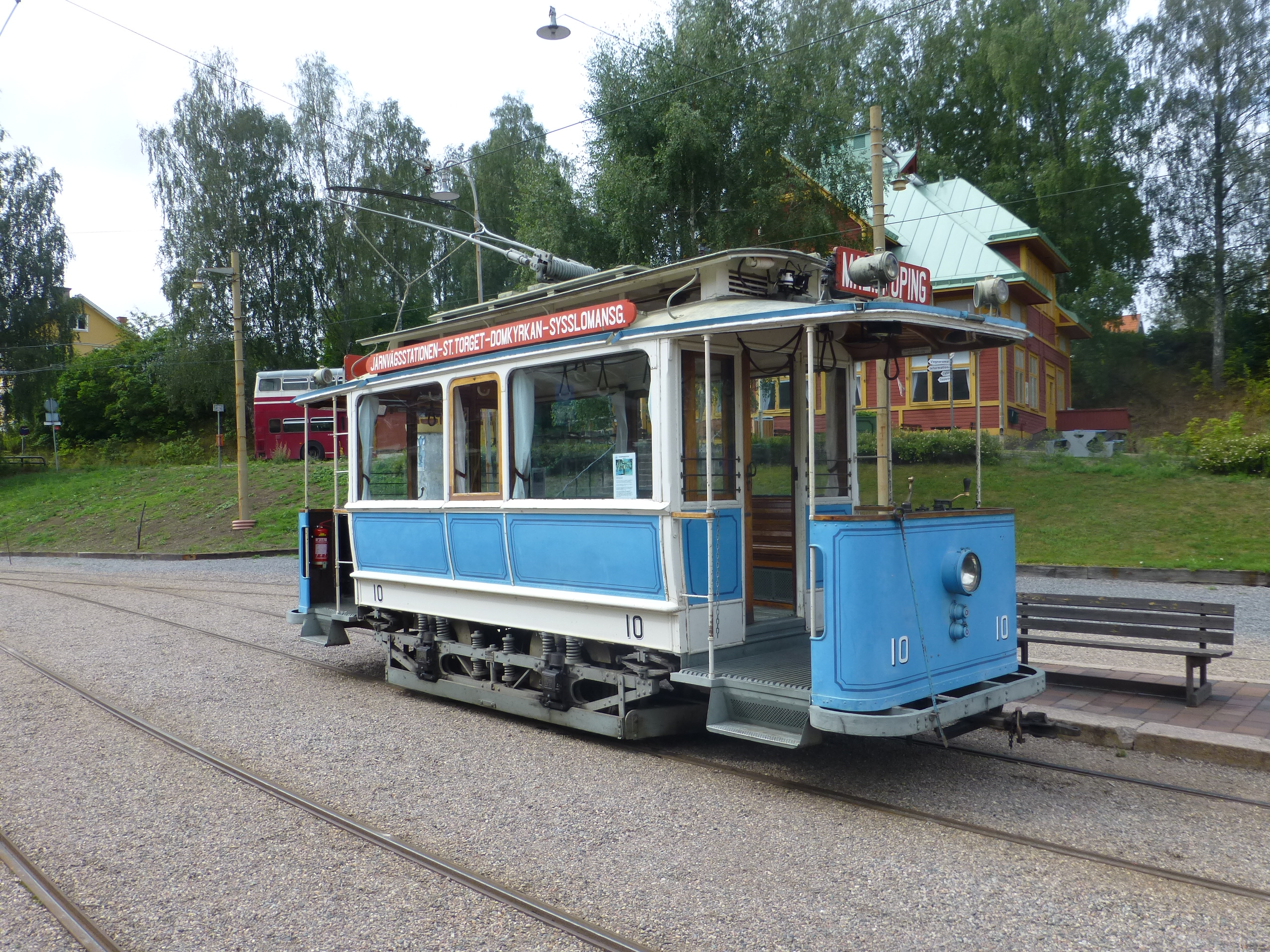 Old tram from Stockholm Uppsala US 10 at Museispårvägen Malmköping in Sweden.